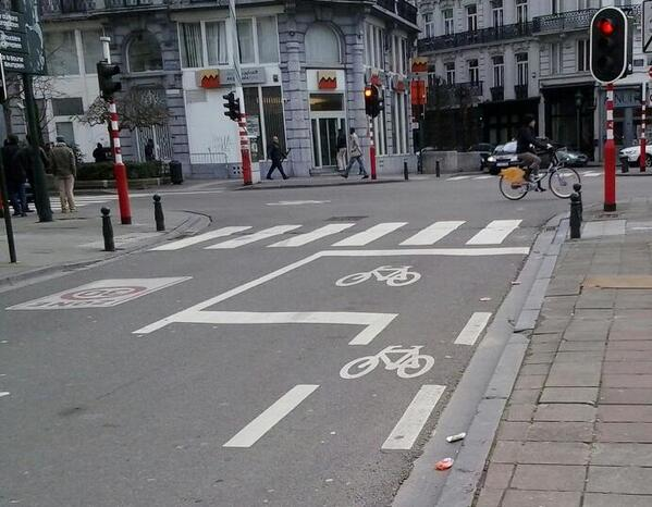 Advanced stop line for bicycles in Brussels